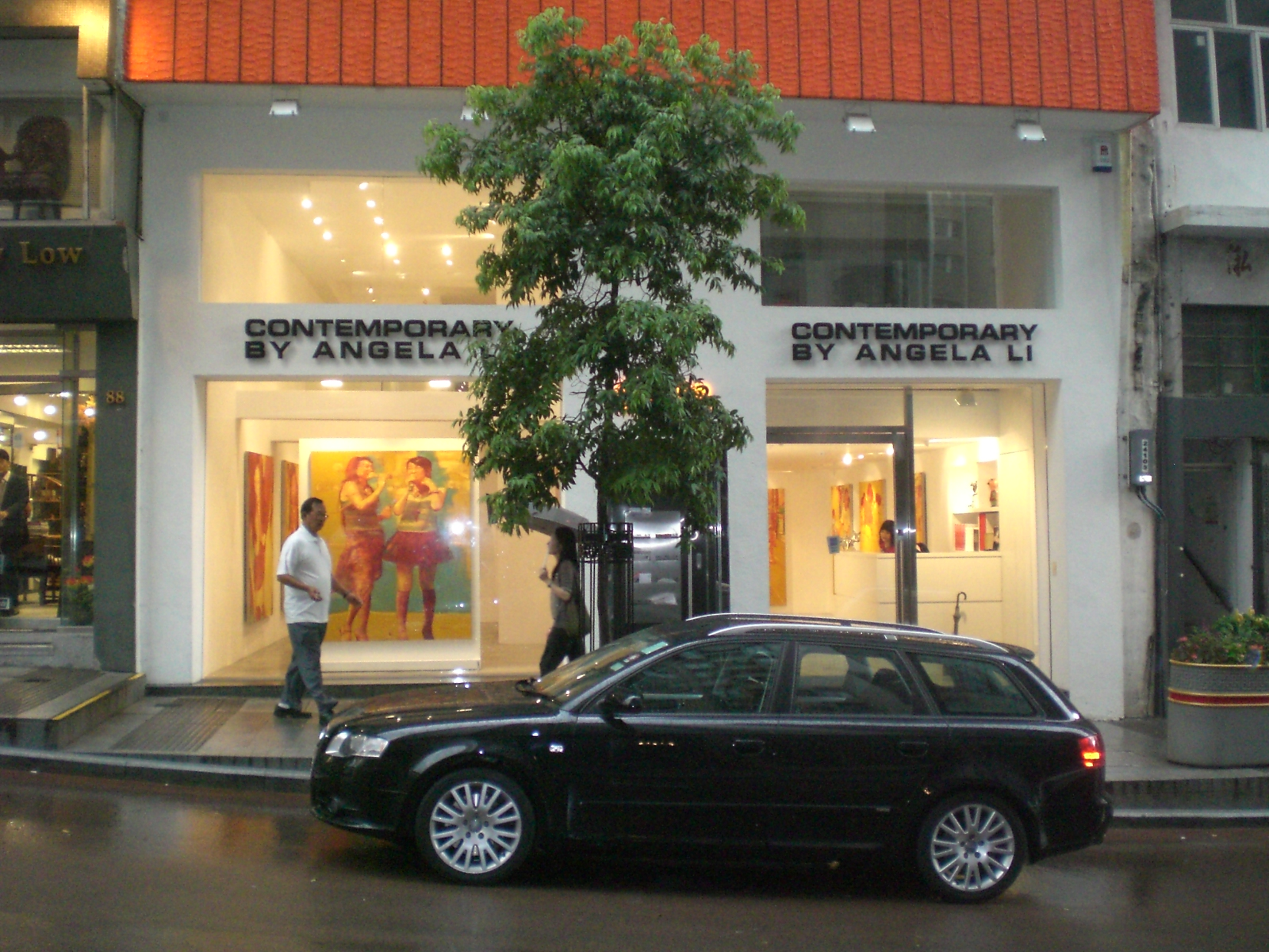 荷李活道的一個藝術畫廊